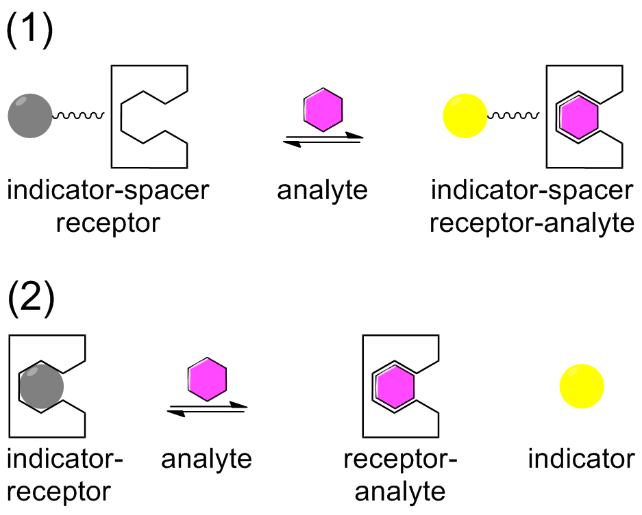 sensing scheme